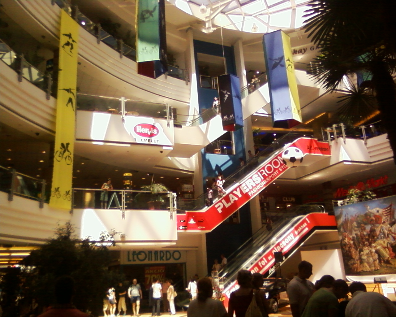 Escalators in the Csaba Center